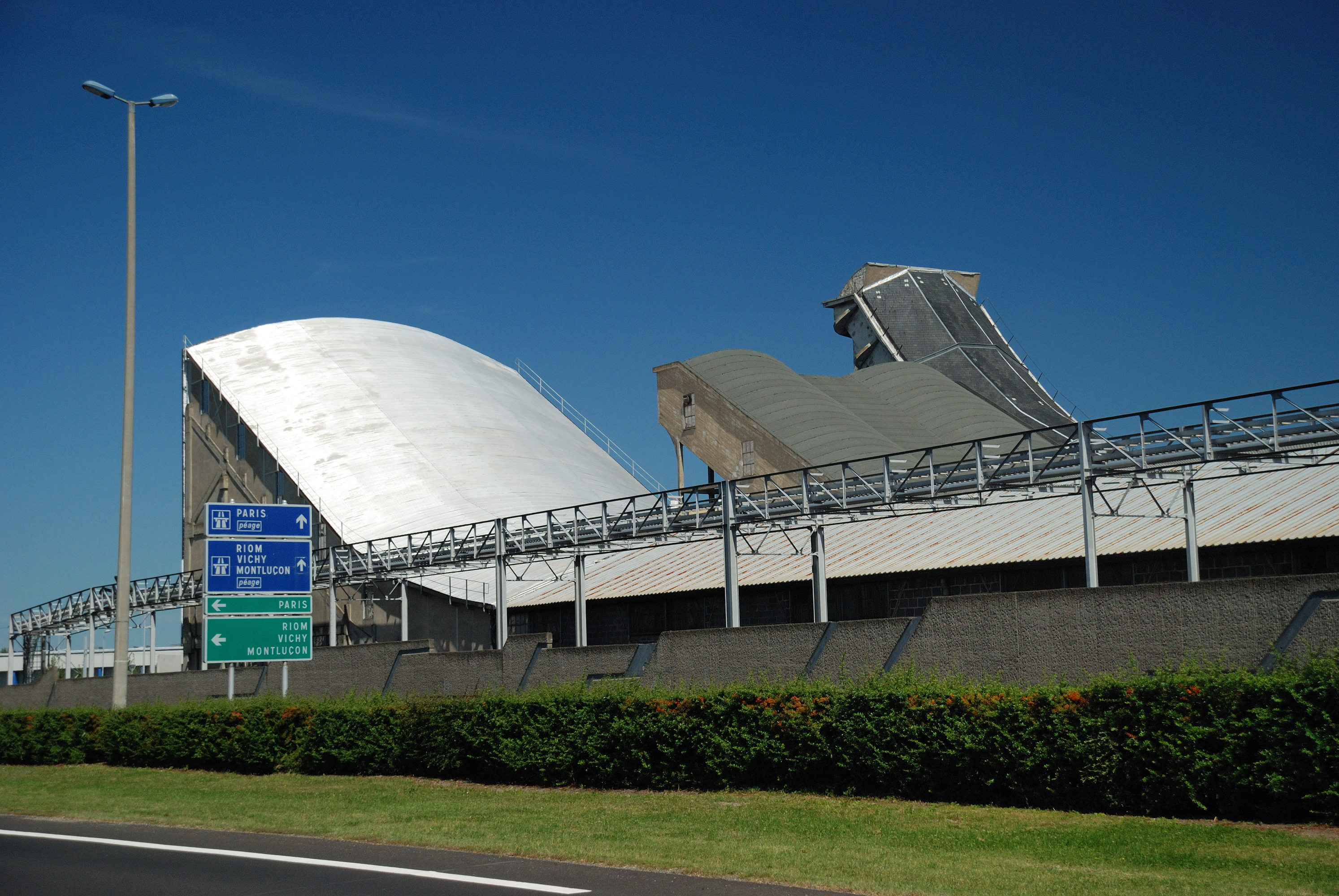 Michelin plant of Cataroux, former testing track (Clermont-Ferrand, Puy-de-Dôme, France. Translations in other languages are welcome.